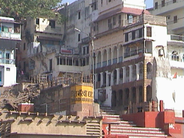 See Varanasi Development Cooperation Handbook/Stories/Responsible Development - Varanasi The Varanasi Heritage Dossier Kautilya Society Play media Vrinda Dar - How we got involved in heritage protection of Varanasi